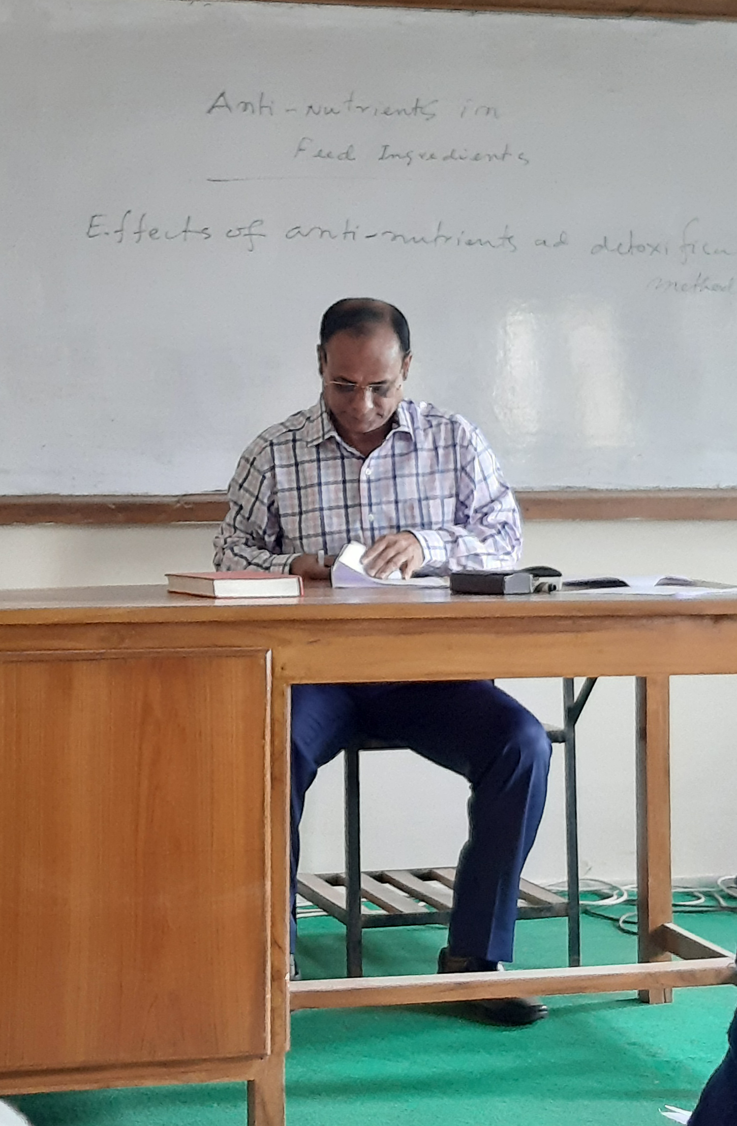 This is the image of Professor Gautam Buddha Das. He is the current Vice Chancellor of Chittagong Veterinary and Animal Sciences Universtiy.